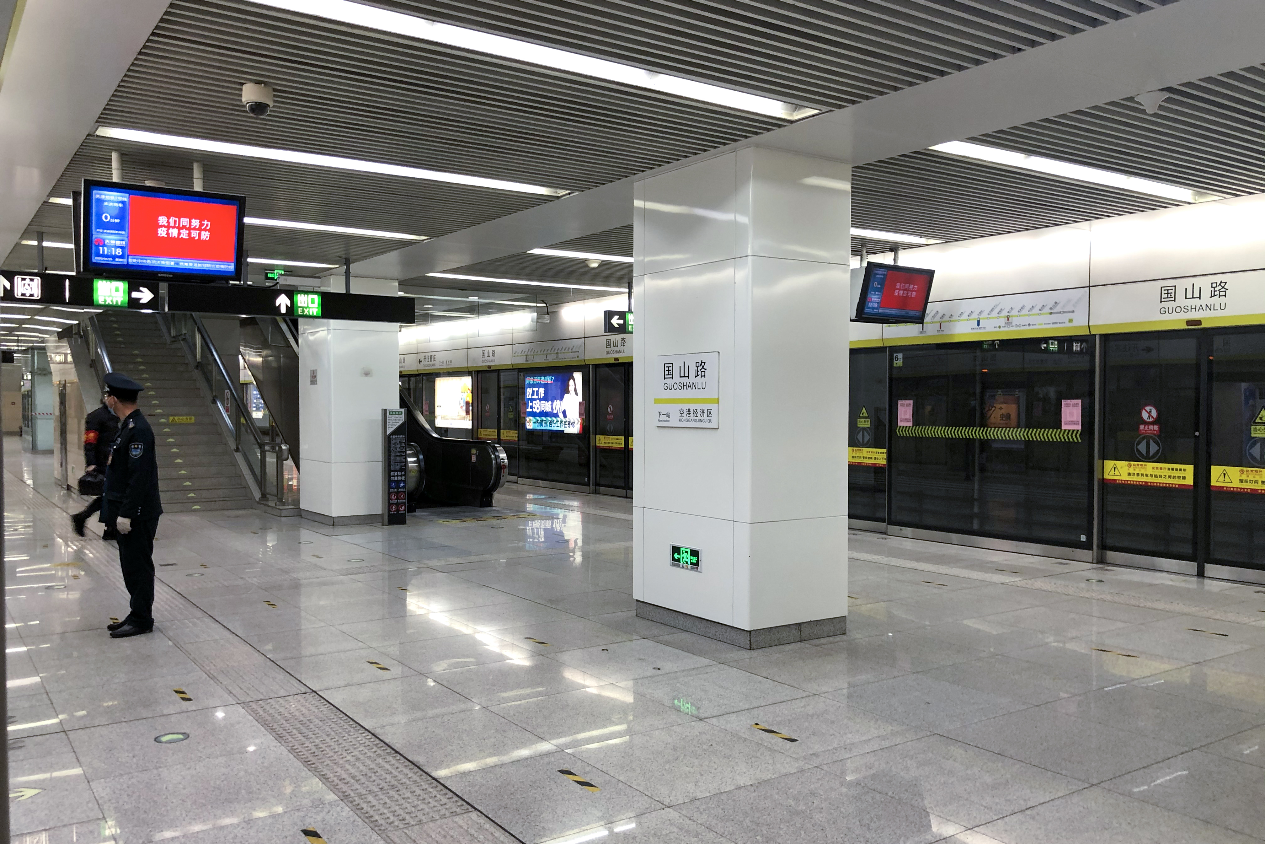 Just one of the by-products of my An-225 hunt... The next section will be overground.